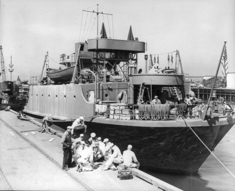 Aft plan view of USS Midnight (IX-149) moored pierside at Oakland, CA., 29 March 1944, while undergoing preparations for Naval Service. Note the Crap game ongoing in the foreground. Navy Yard Mare Island photo # 2034-44.